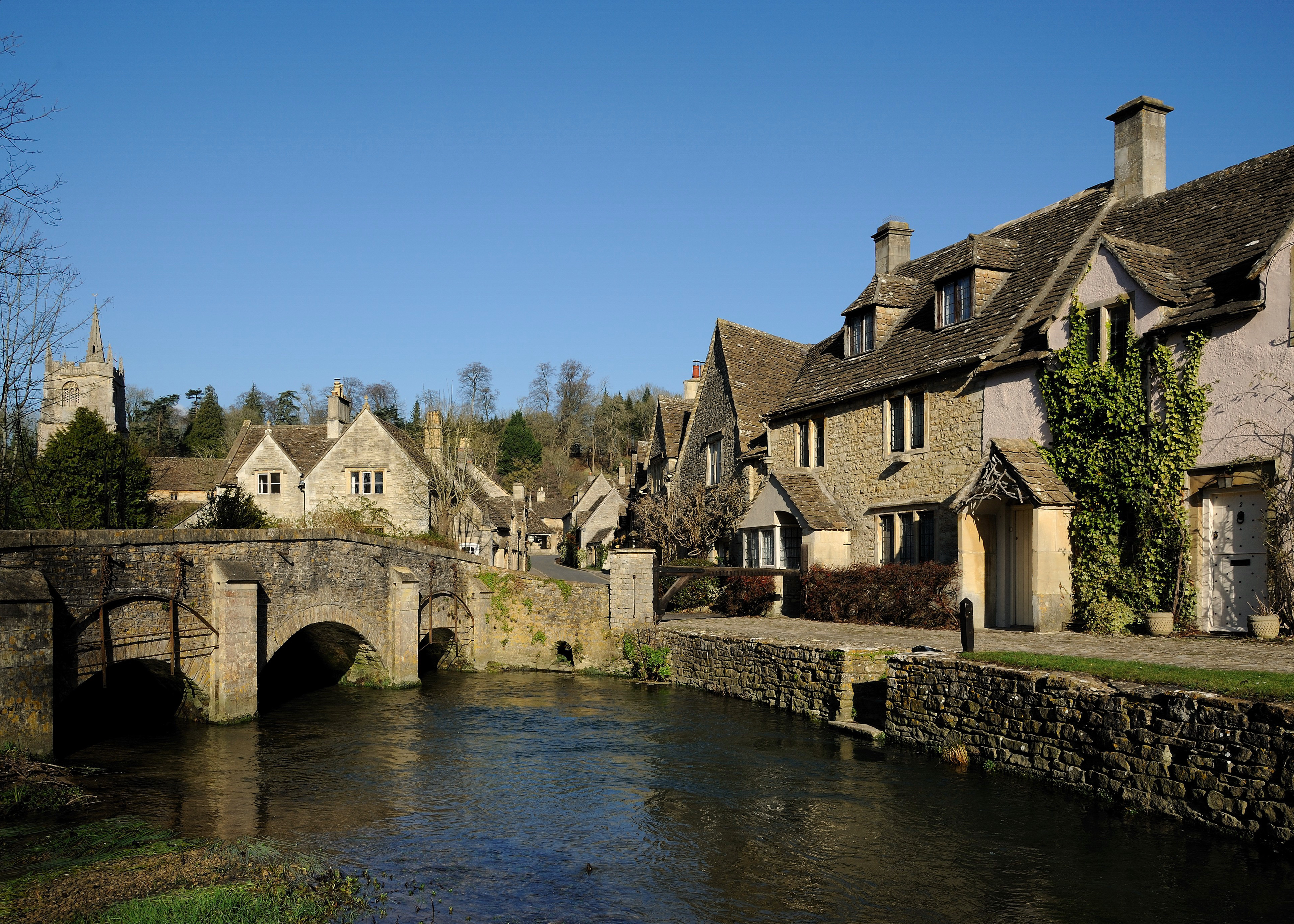 Castle Combe is a small Cotswold village in Wiltshire, England, with a population of about 350. The village was the setting for the movie "The War Horse" and also the original version of Doctor Doolittle with Rex Harrison.